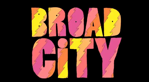 Broad City Logo